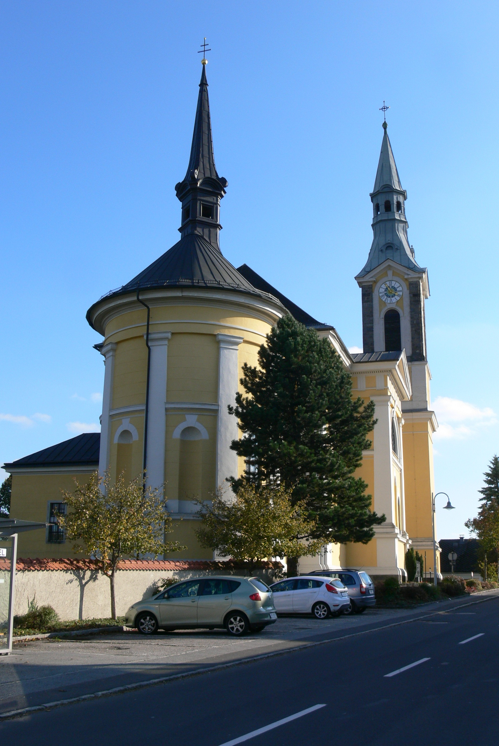 Niederkappel ( Upper Austria ). Saint Andrew parish church ( 1895 ) - apse.